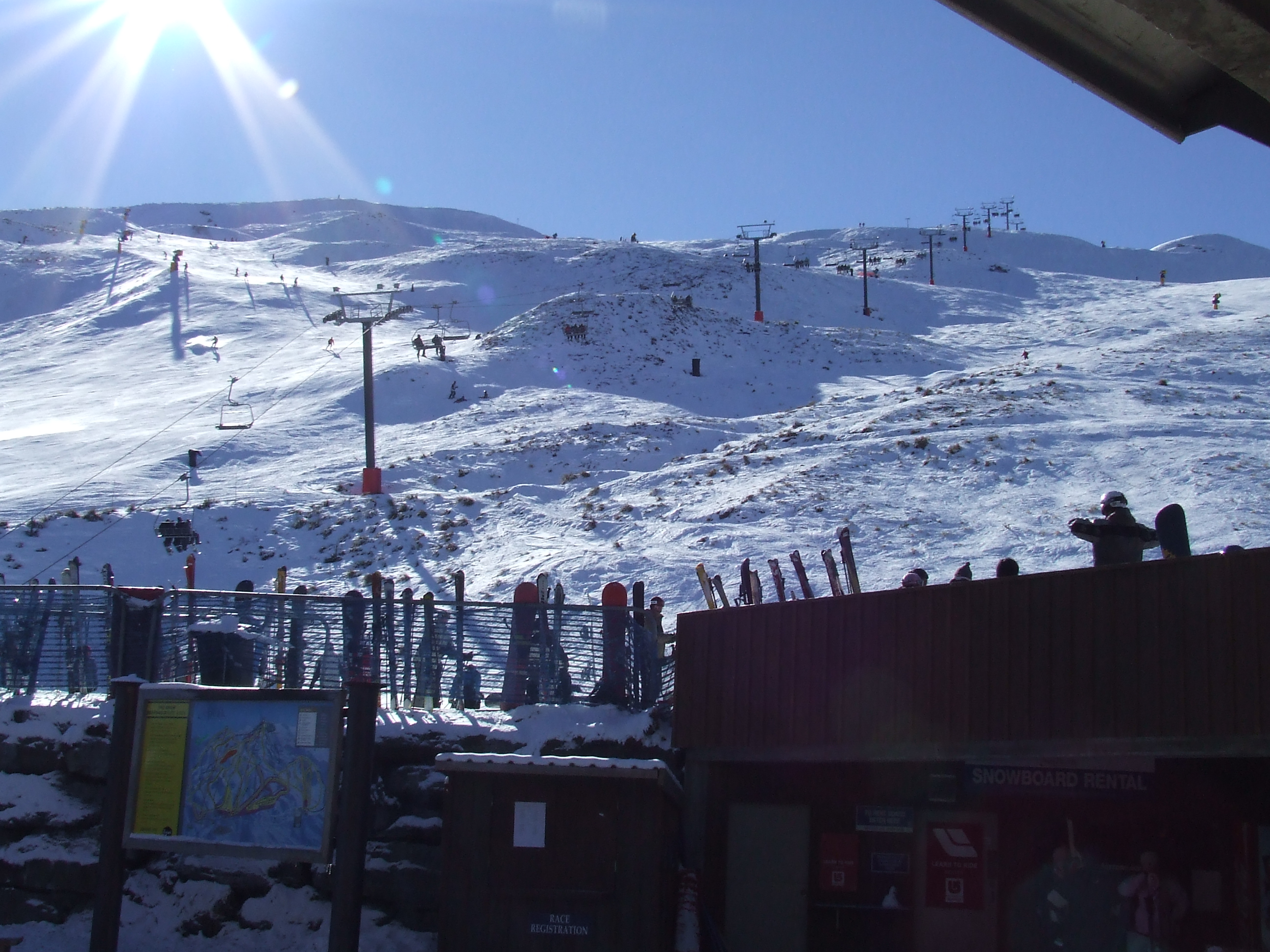 Snow Fields @ Coronet Peak NZ